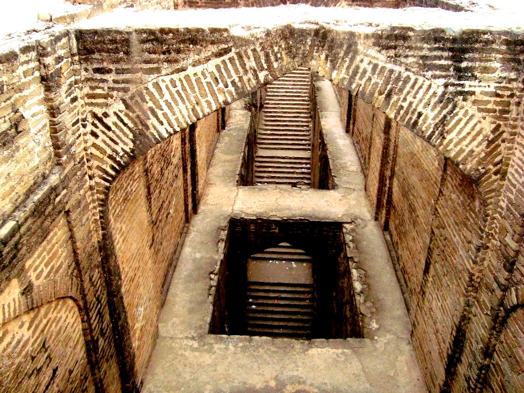 Rohtas Fort This is a photo of a monument in Pakistan identified as the PB-30